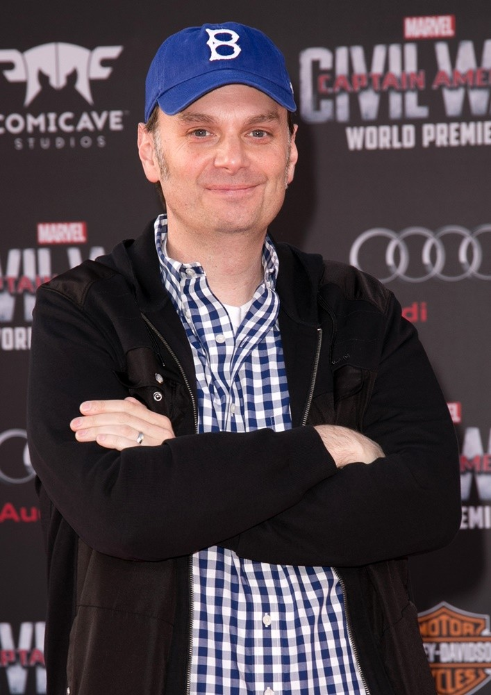 Brian Lynch attends The World Premiere of Captain America: Civil War on April 12, 2016.